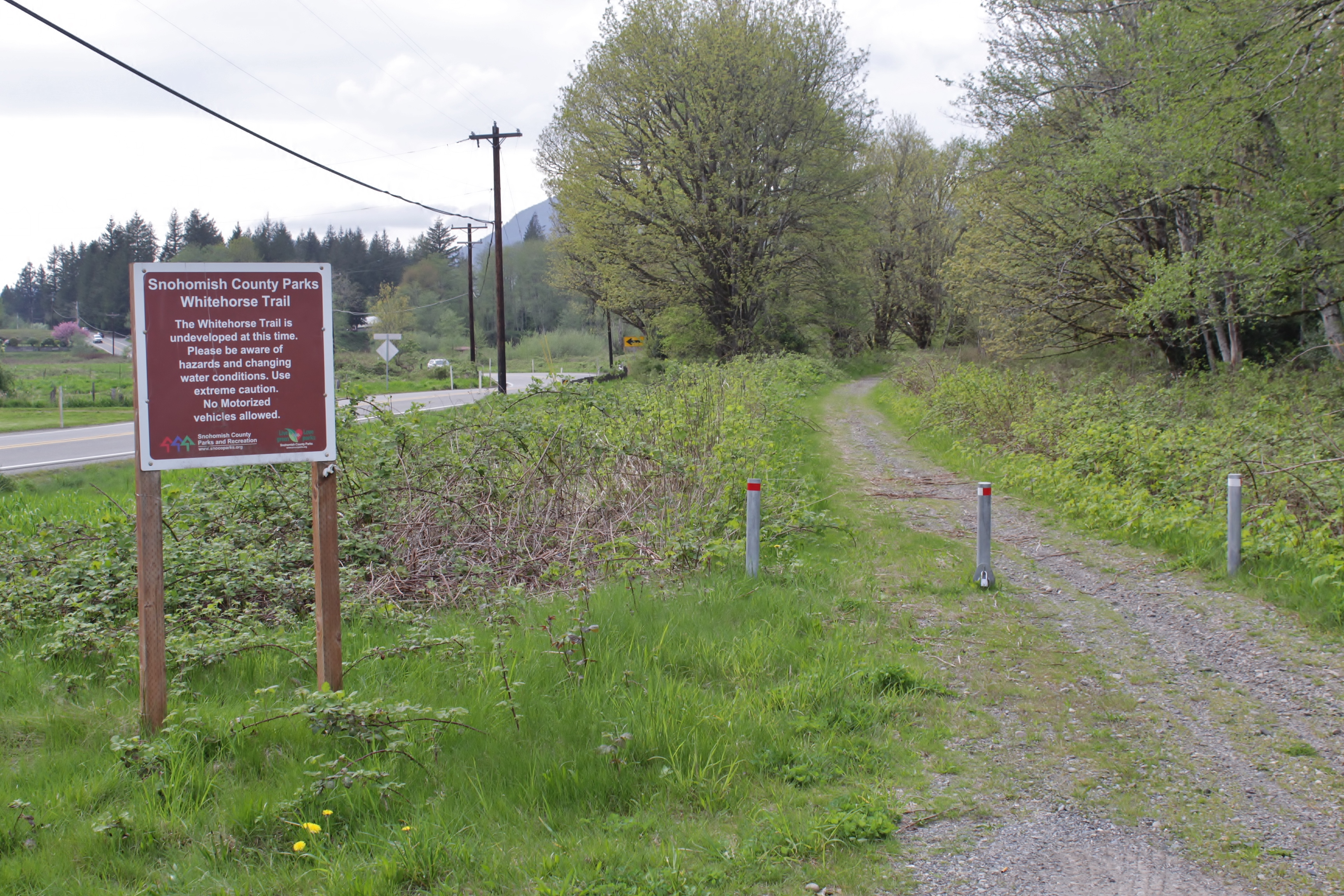 Looking west on an unpaved section of Whitehorse Trail near Oso, Washington.